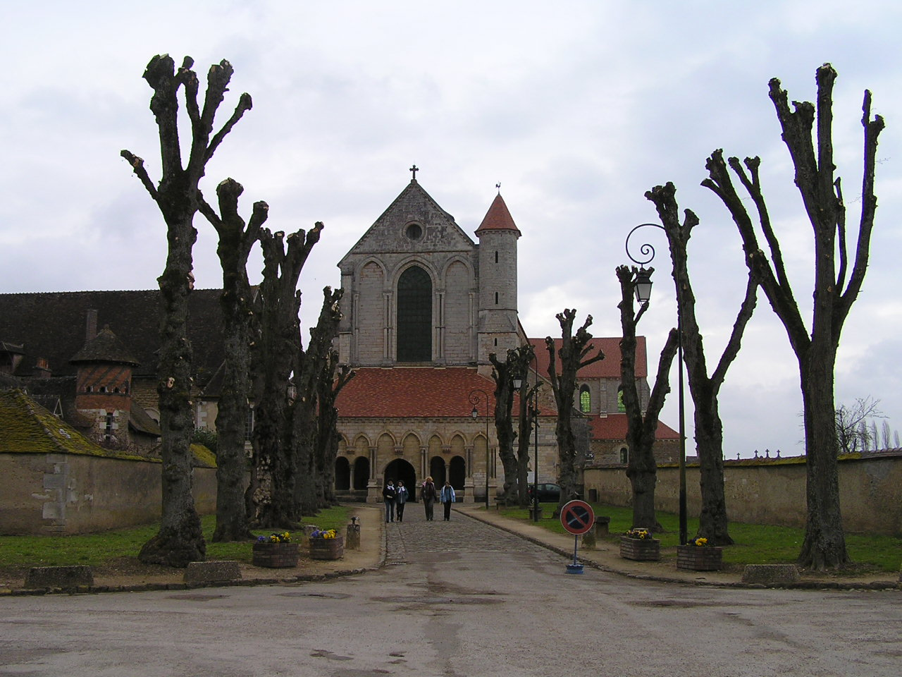 Front of the Pontigny Abbey, Pontigny, France.